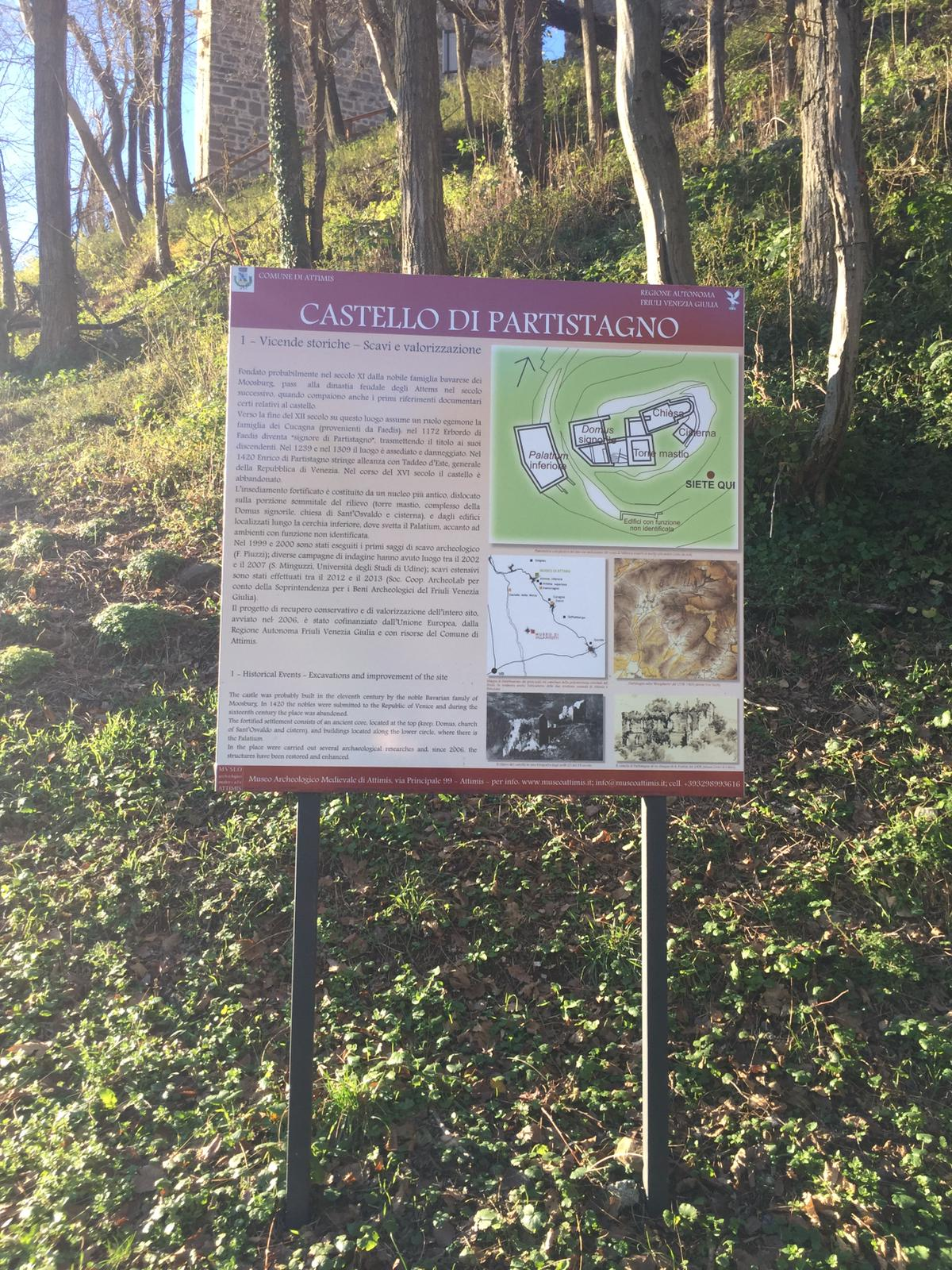 Partistagno